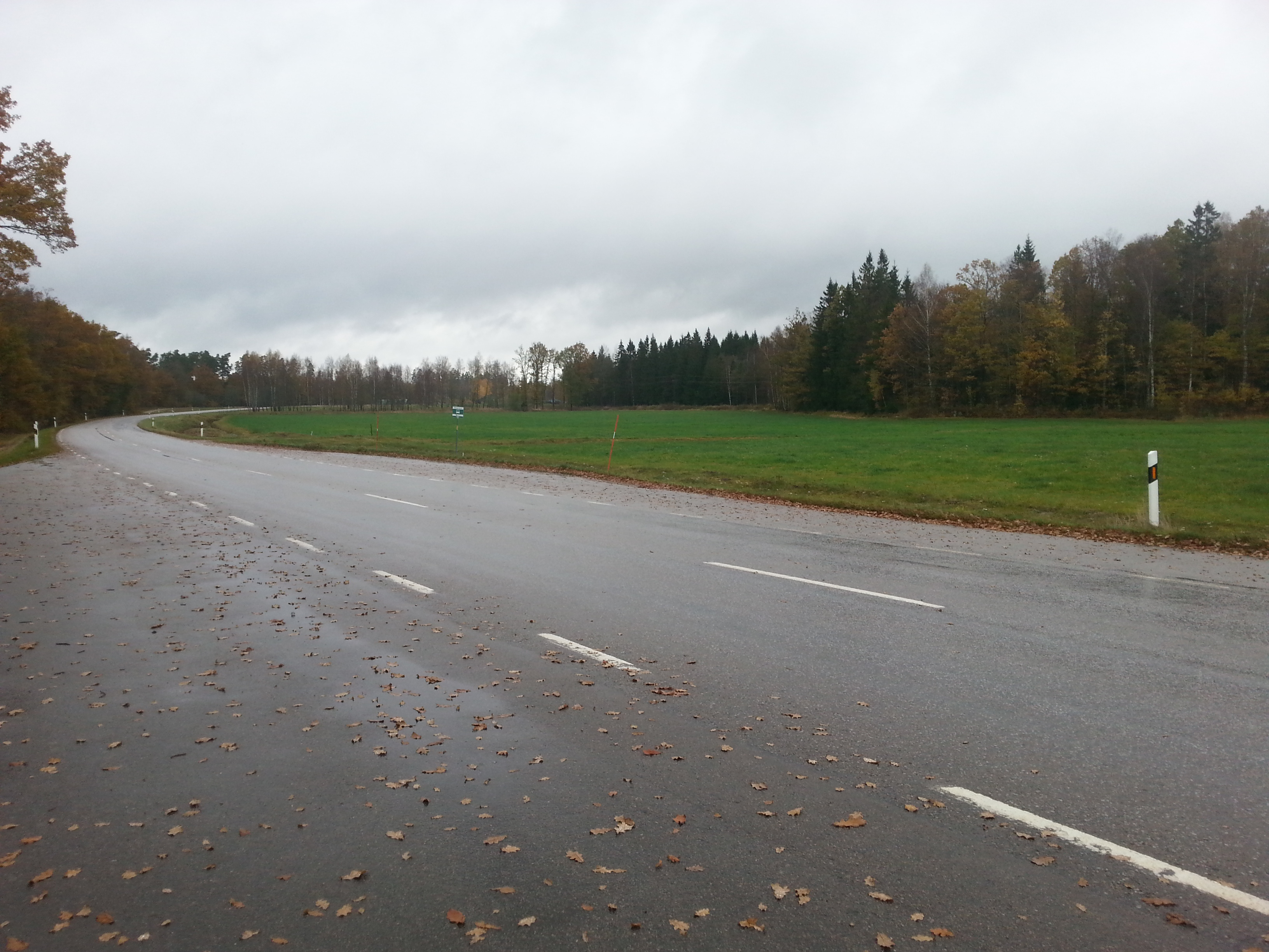 This photo, taken October 2014, shows the place Metallica's bassist Cliff Burton was killed in a bus accident in September 1986. The picture is taken towards north on the old E4 (now called 'Turistväg Riksettan'), where the bus came from. Behind the photographer are the buildings that previously housed a restaurant called "Gyllene Rasten" (sign has been taken down, the area is private). The memorial stone has therefore been moved to a rest stop seen on far left on the picture.